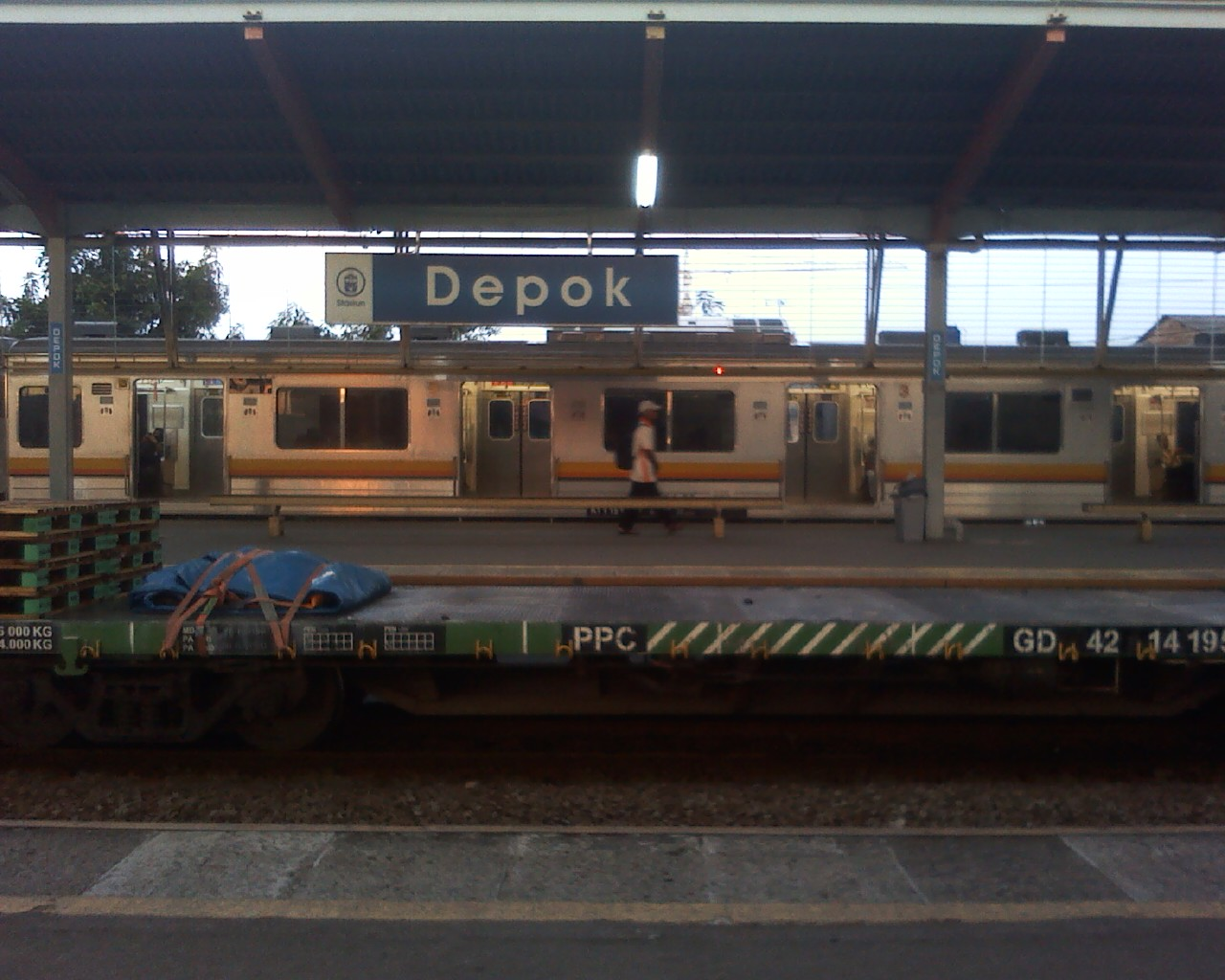 Depok railway station, available on line 1 KRL Commuter Line destination Jakarta Kota railway station, West Jakarta and on line 2 are parked Indocement (freight) destination Nambo railway station, Bogor Regency.